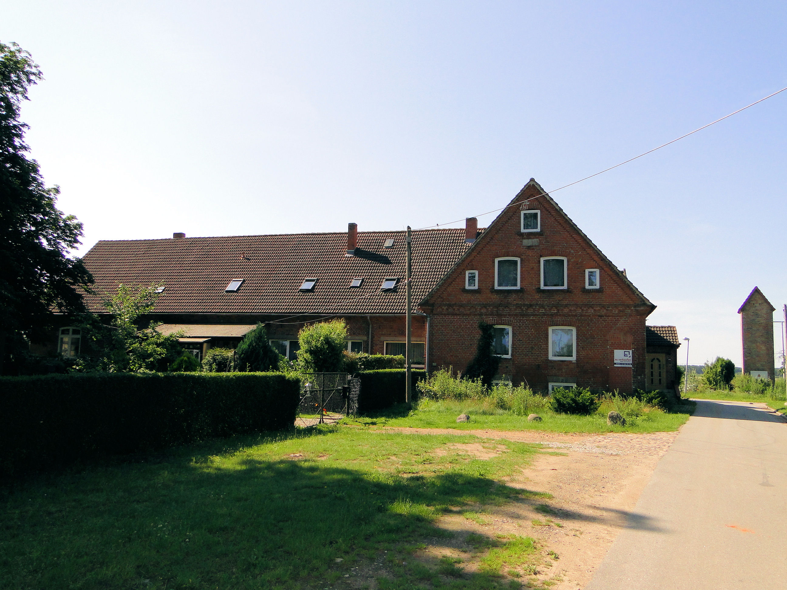 Former manor house in Rum Kogel, district Güstrow, Mecklenburg-Vorpommern, Germany